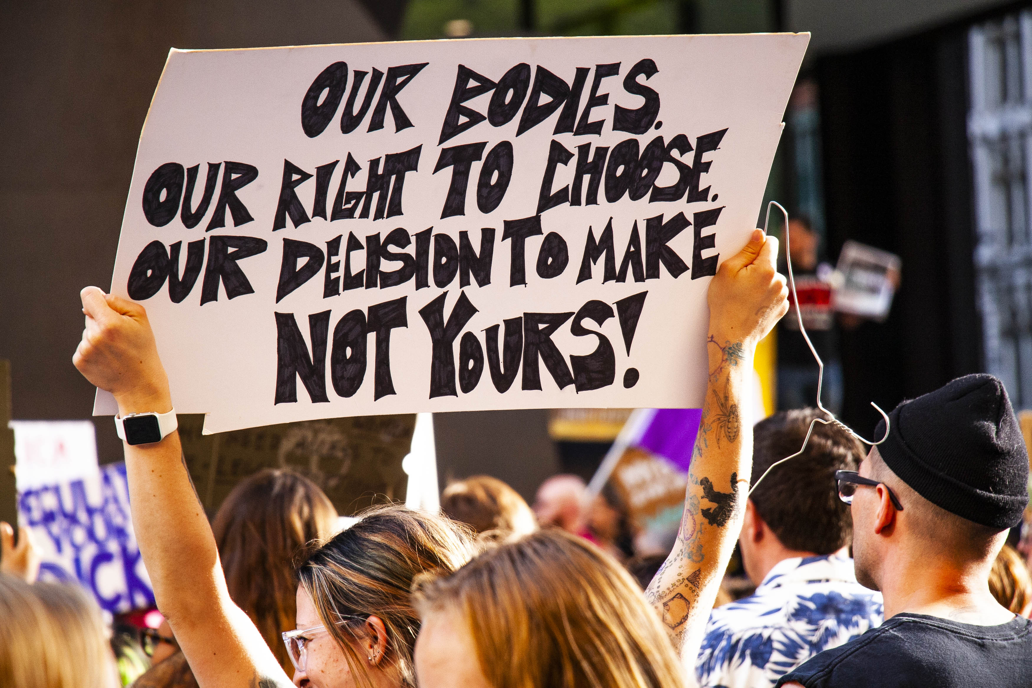 Rally for Reproductive Rights Chicago Illinois 5-23-19_0802